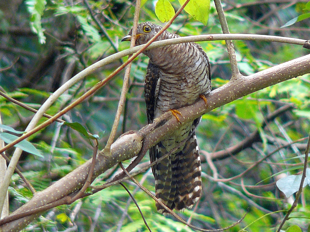 A juvenile Indian Cuckoo in Kannur, Kerala, India.